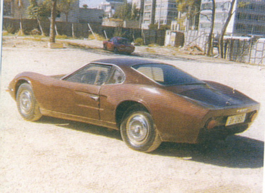 Photograph of a Tzen sports car taken in Athens in 1973. The car clearly "imitates" existing designs. The image has been provided in electronic form by its creator, Mr. Antonis Tzen (a good friend) who took the photograph. It has been published in my own book cited in the article. It can be freely reproduced. I change licencing to GFDL so that there is no confusion. Skartsis 19:37, 10 September 2007 (UTC)